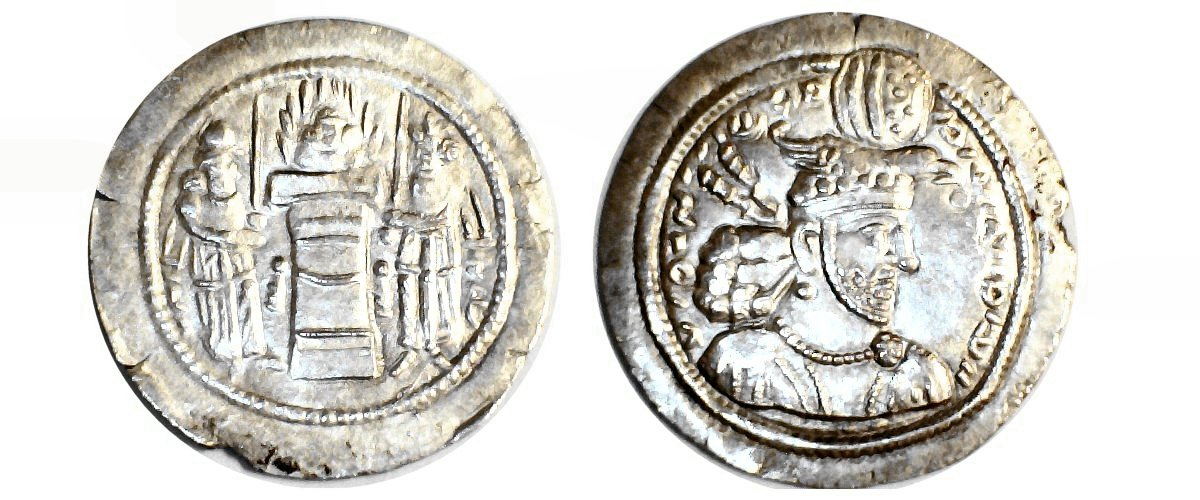 Sasanian empire silver drachma showing on its obverse side Sasanian king Hormizd II (302-309 CE). The king wears a winged crown with an eagle head, his Korymbos (spherical veiled hairdress) is seen. A double ribbon flows behind the head of the monarch. A Pehlevi Inscription and a single grenetis complete the image. On the reverse side, a fire burns on an altar between the king on the left and a crowned soldier on the right, both holding their sword.. Here again, a Pehlevi inscription and a single grenetis achieve the decoration.